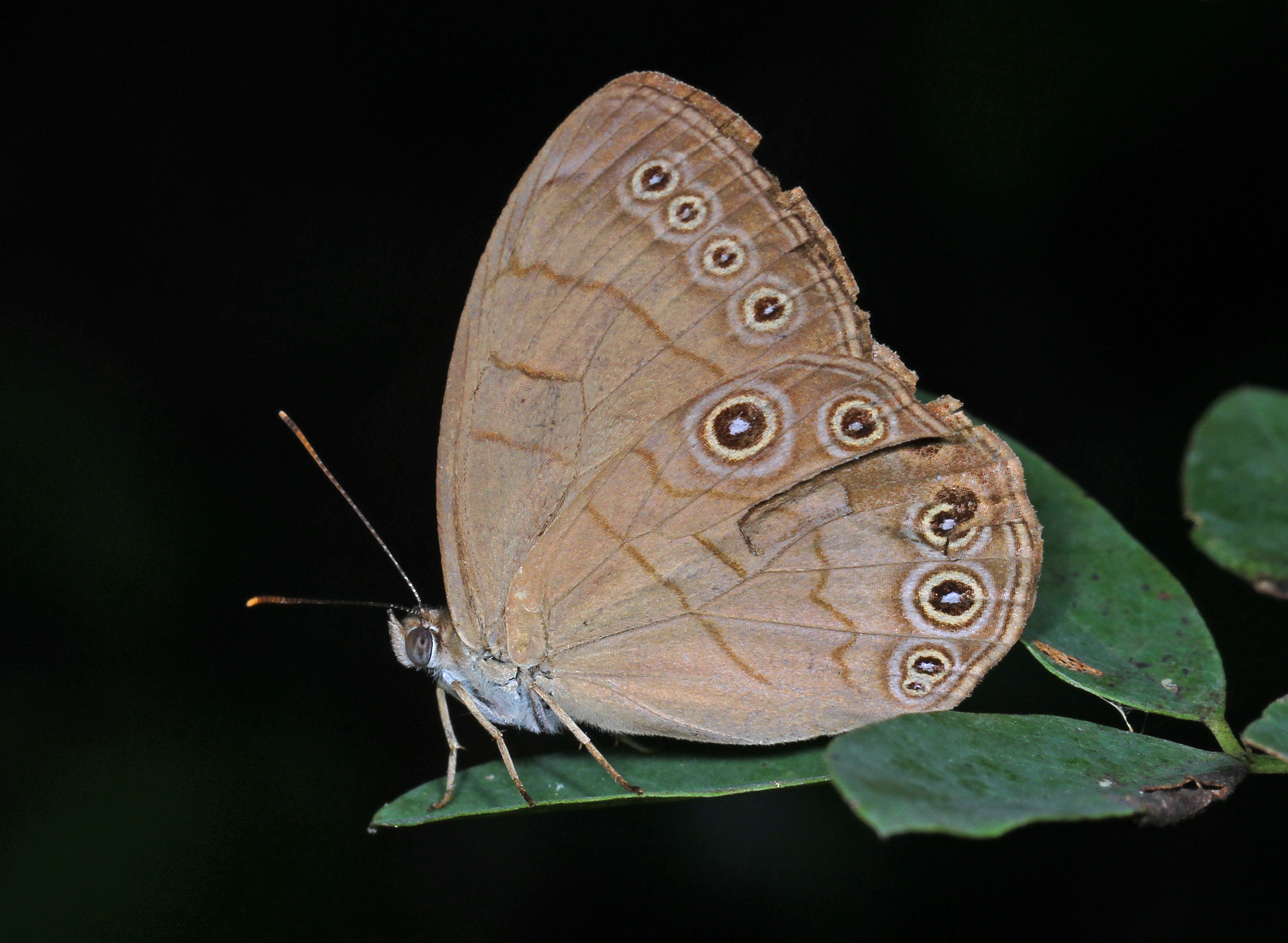 Appalachian Brown - Lethe appalachia, Julie Metz Wetlands, Woodbridge, Virginia